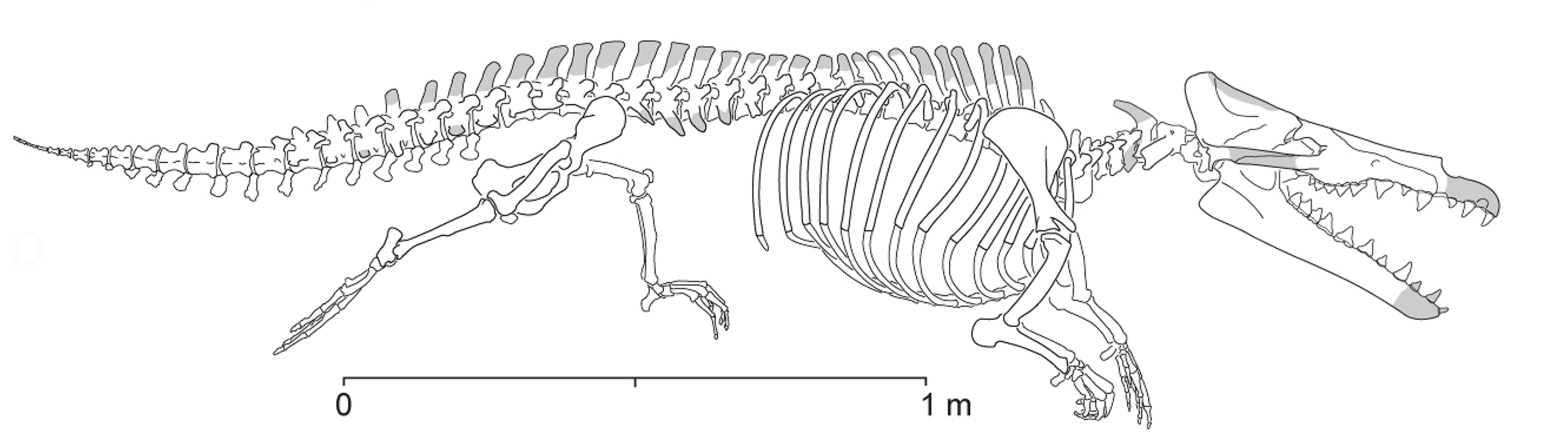 Lateral view of Maiacetus inuus